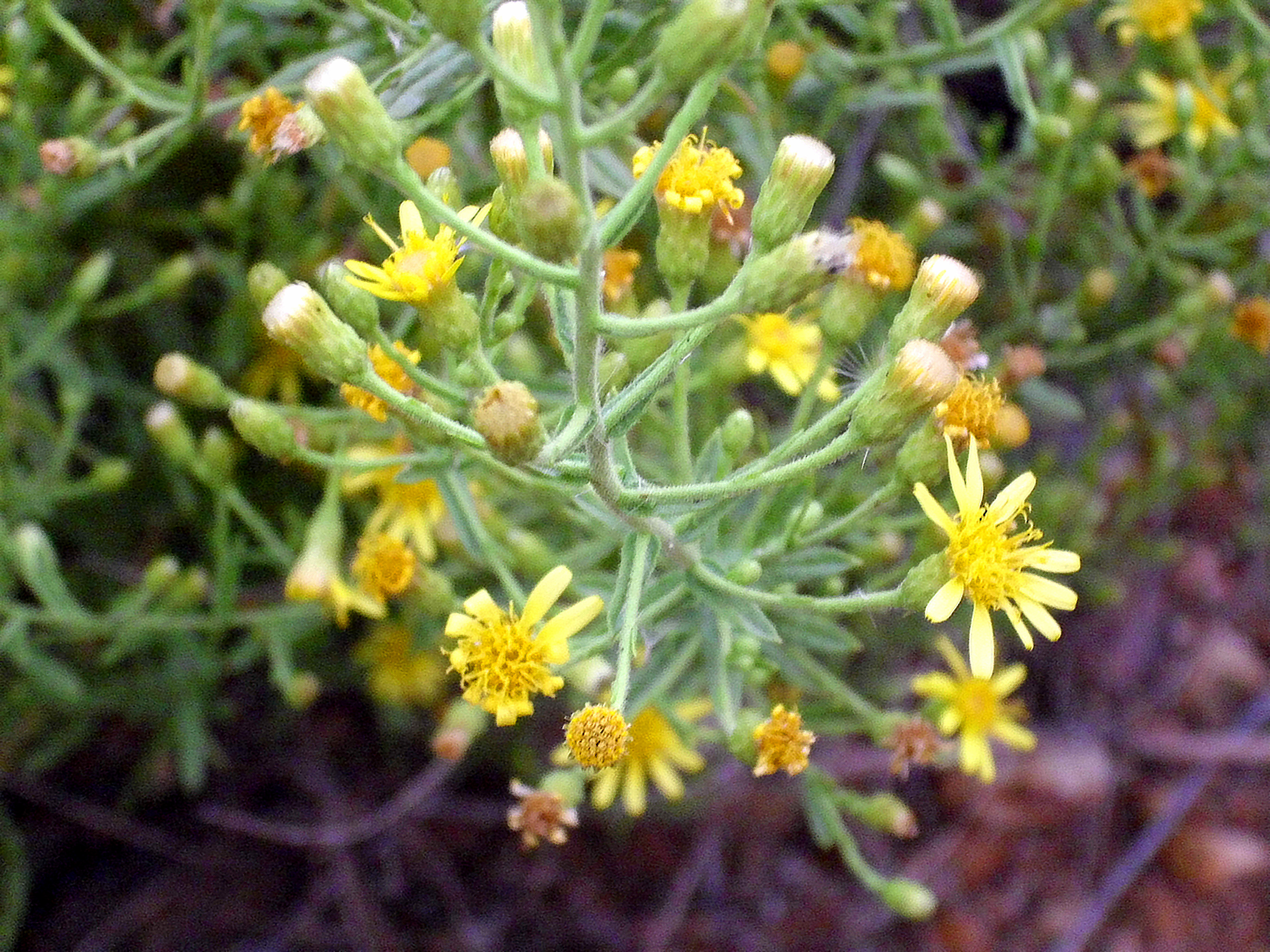 Dittrichia viscosa inflorescences, Dehesa Boyal de Puertollano, Spain